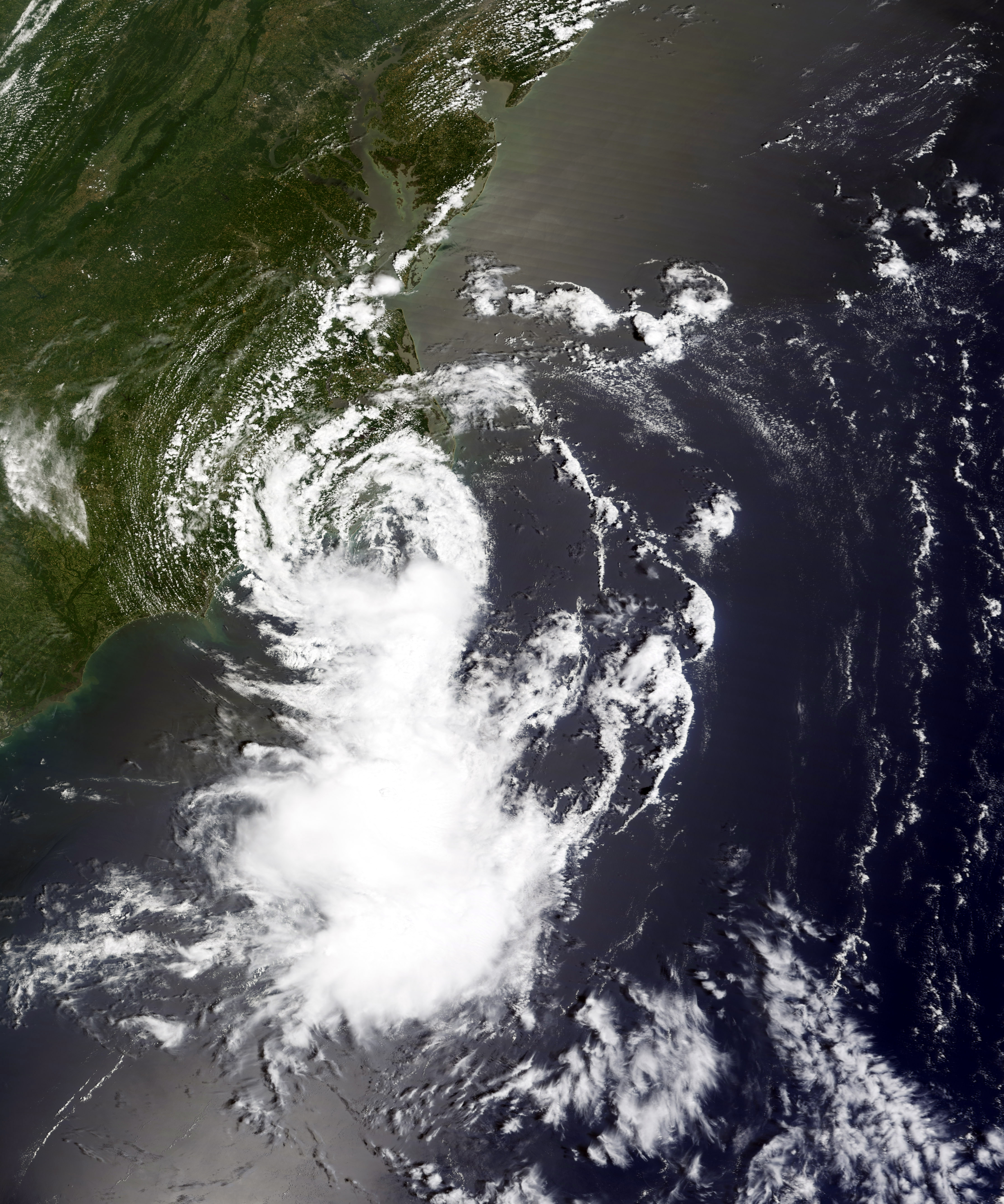 Tropical Storm Cristobal as seem from Terra Satellite on 2008-07-20